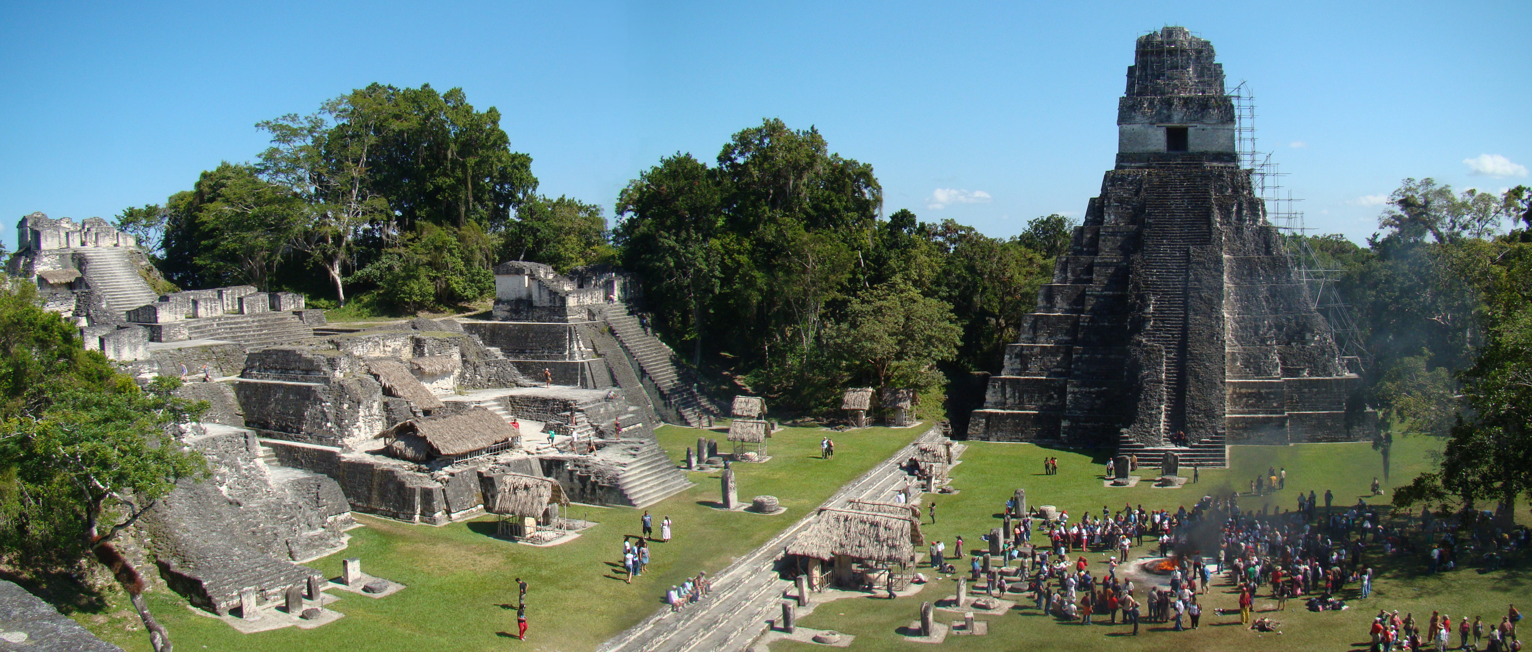 Temple I on The Great Plaza and North Acropolis seen from Temple II in Tikal, Guatemala, just after noon during the Mayan mid-winter/winter solstice/new year celebrations